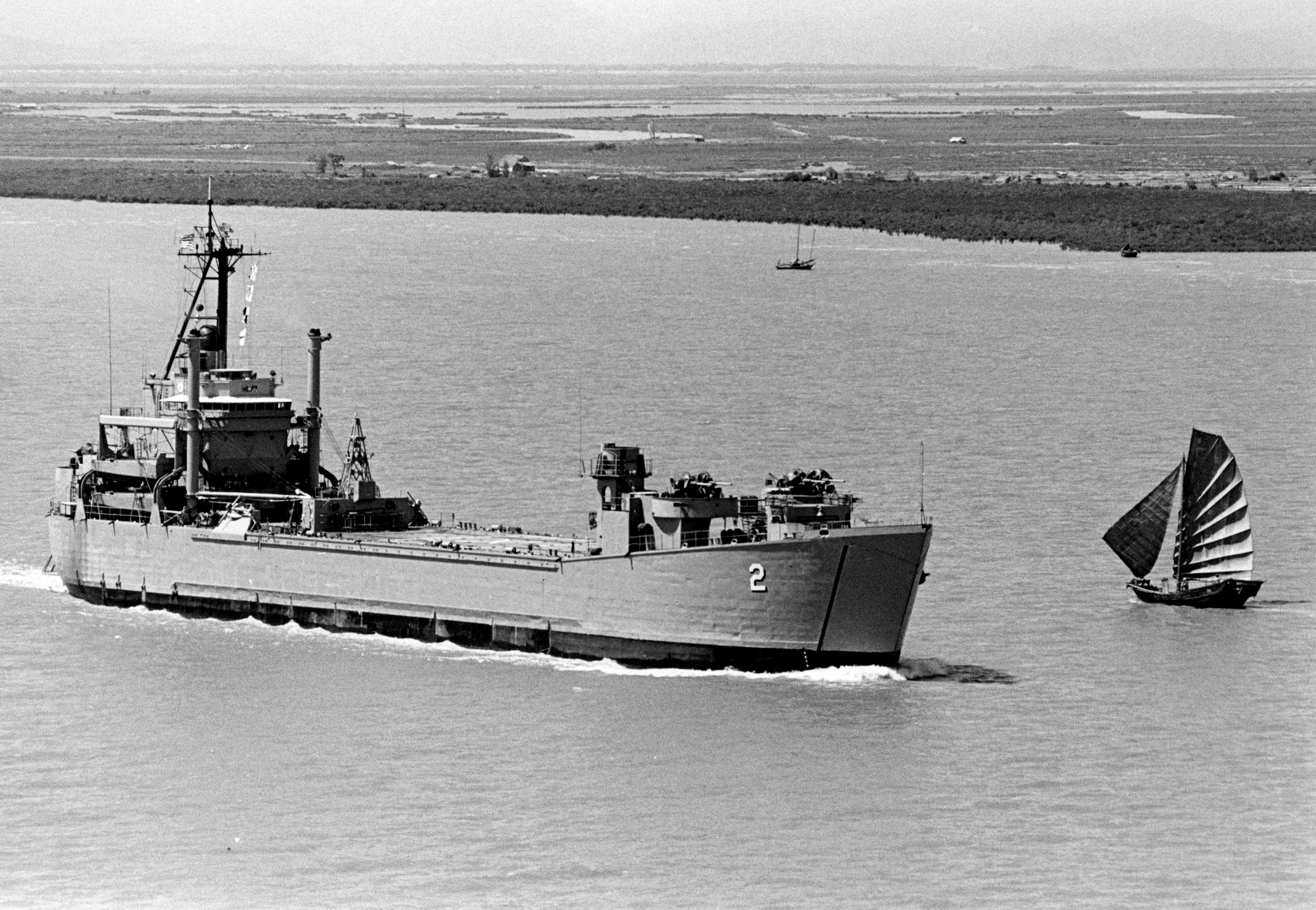 The U.S. Navy special device minesweeper USS Washtenaw County (MSS-2, formerly LST-1166) cruises in Haiphong harbour, North Vietnam, in a final demonstration that the channel was safe for shipping at the completion of minesweeping operations. Note the single-mast junk under sail at right.